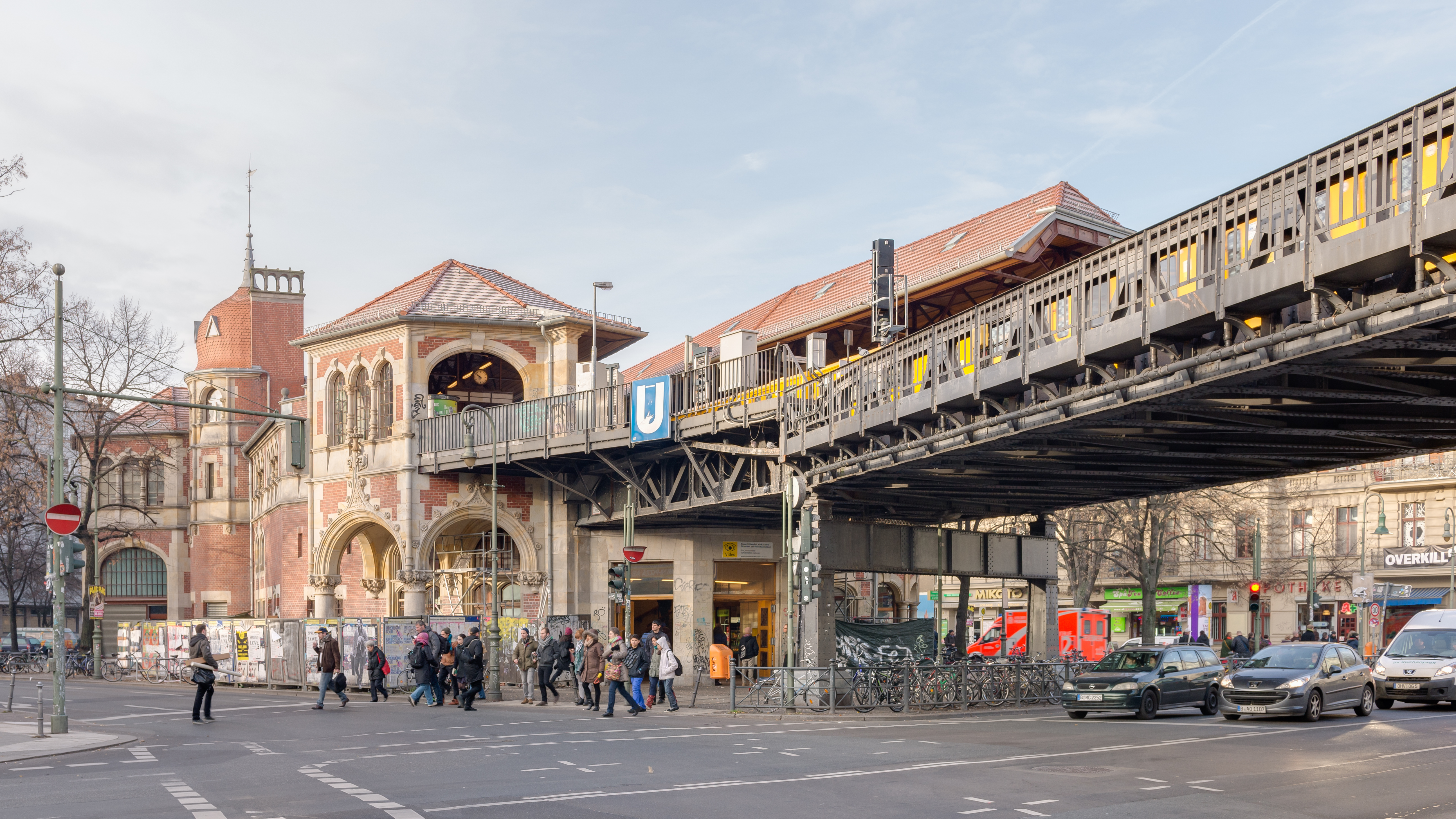 Schlesisches Tor U-bahn station, Berlin.